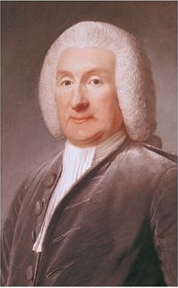 Antoine de Sartine, French 18th century minister